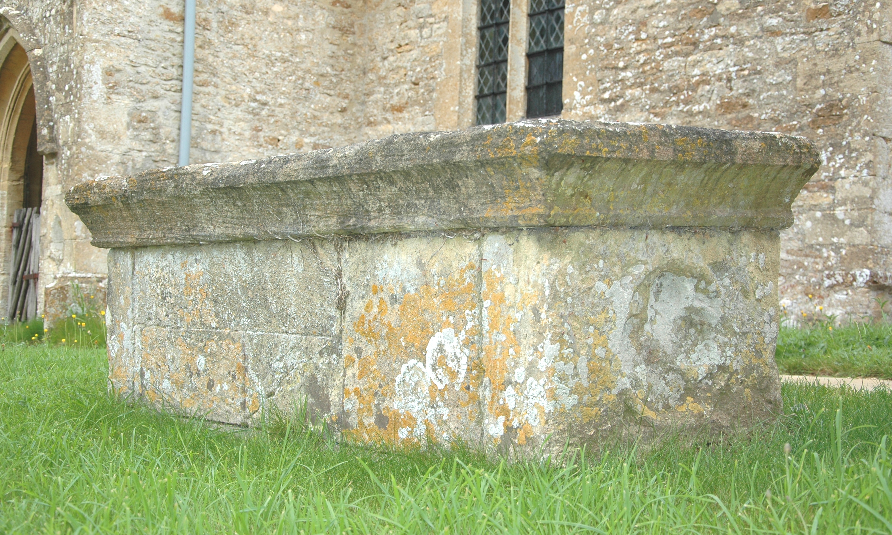 16th-century chest tomb in St Edward the Confessor's parish churchyard, Westcot Barton or Westcott Barton, Oxfordshire